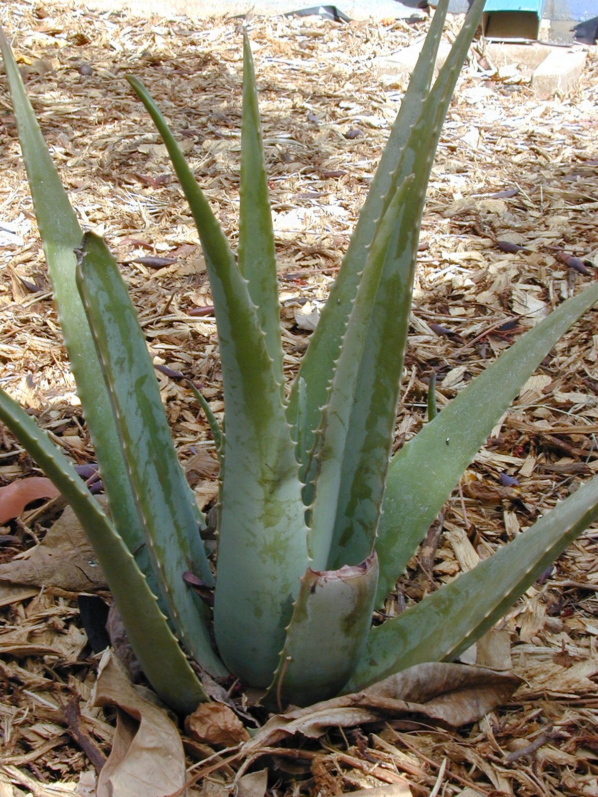 Aloe vera (habit). Location: Maui, Kalepolepo